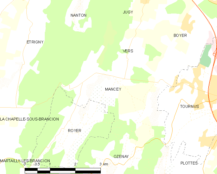 Map of French municipality